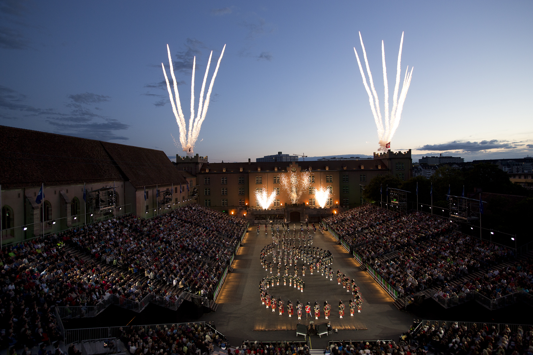 Basel Tattoo 2012